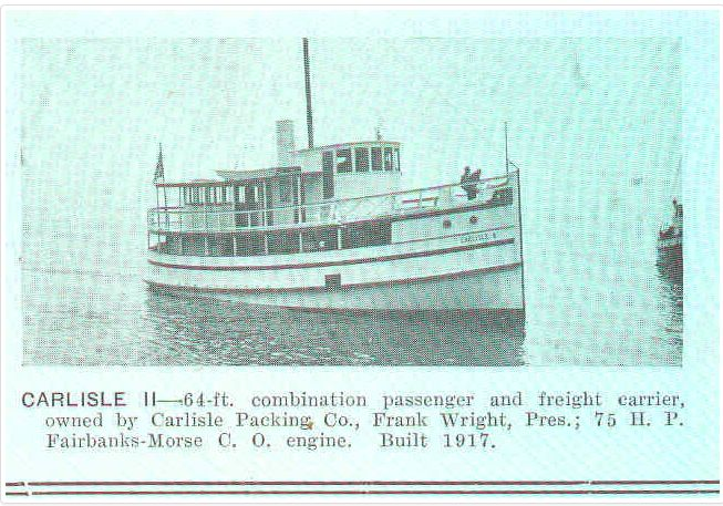 Carlisle II--64-ft combination passenger and freight carrier, owned by Carlisle Packing Co., Frank Wright, Pres: 75 H. P. Fairbanks-Morse C. O. engine. Built 1917